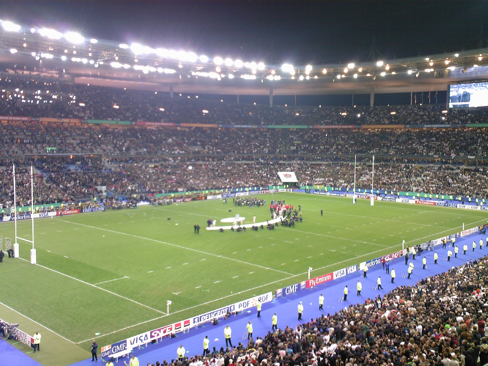 The England Rugby Union team line up to collect their silver medals in the Stade de France, 2007 Rugby World Cup Final